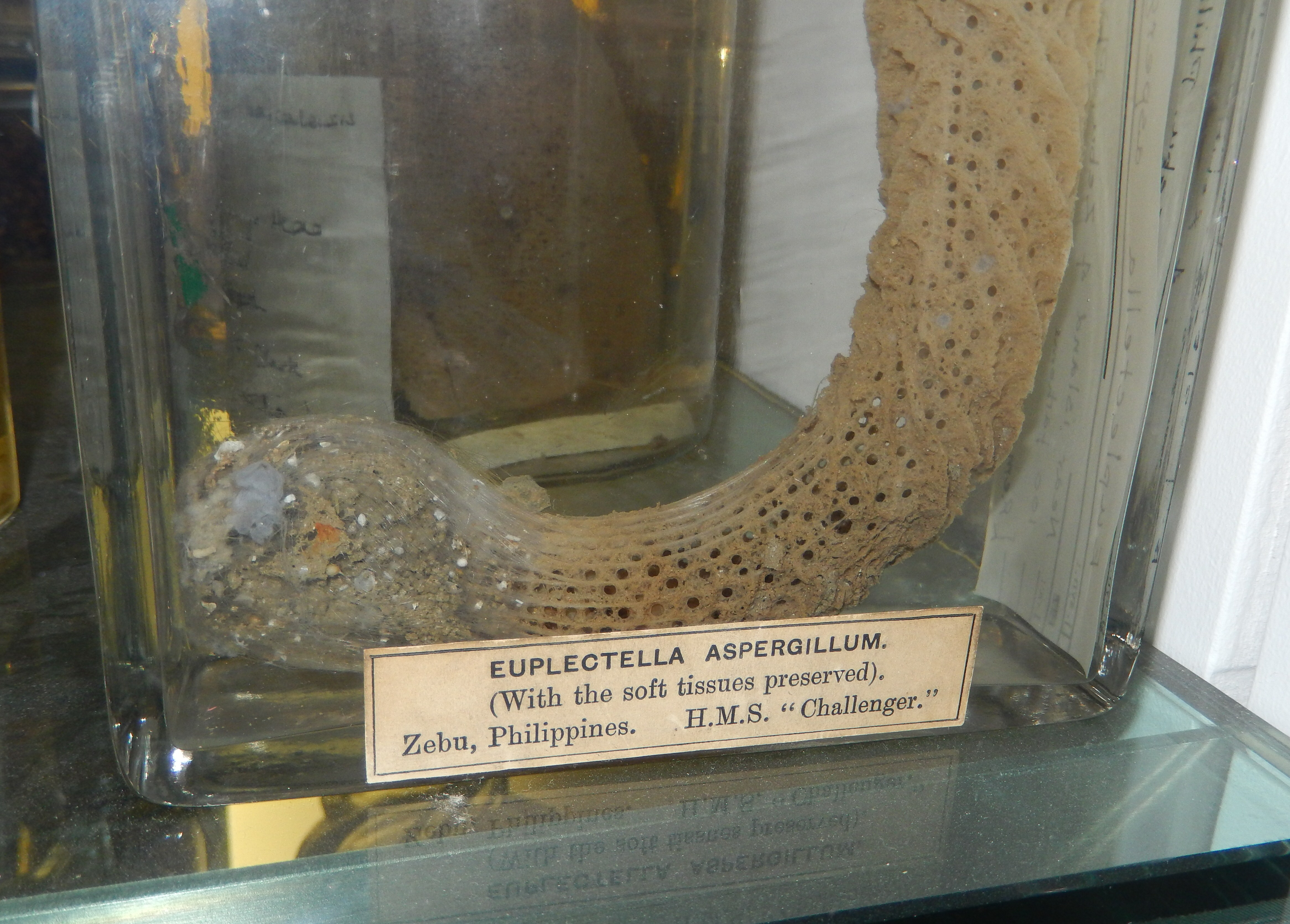 Euplectella aspergillum, with the soft tissues preserved. HMS Challenger specimen. Collection of the Natural History Museum, London